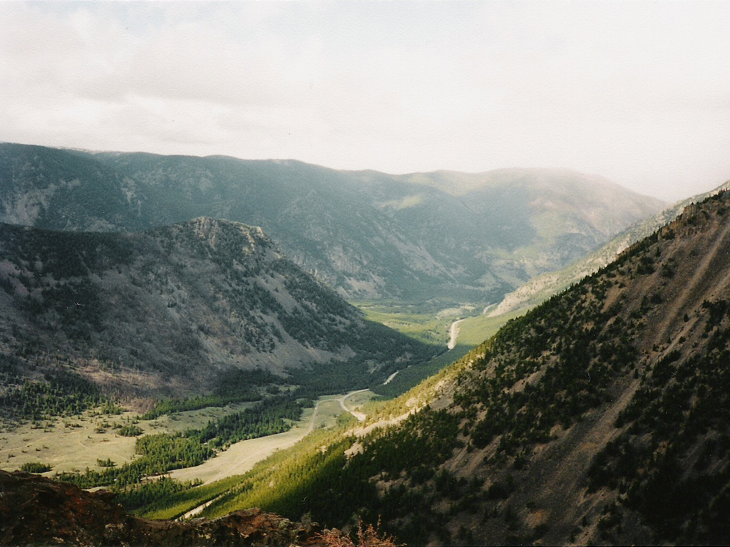 Yellowstone national park